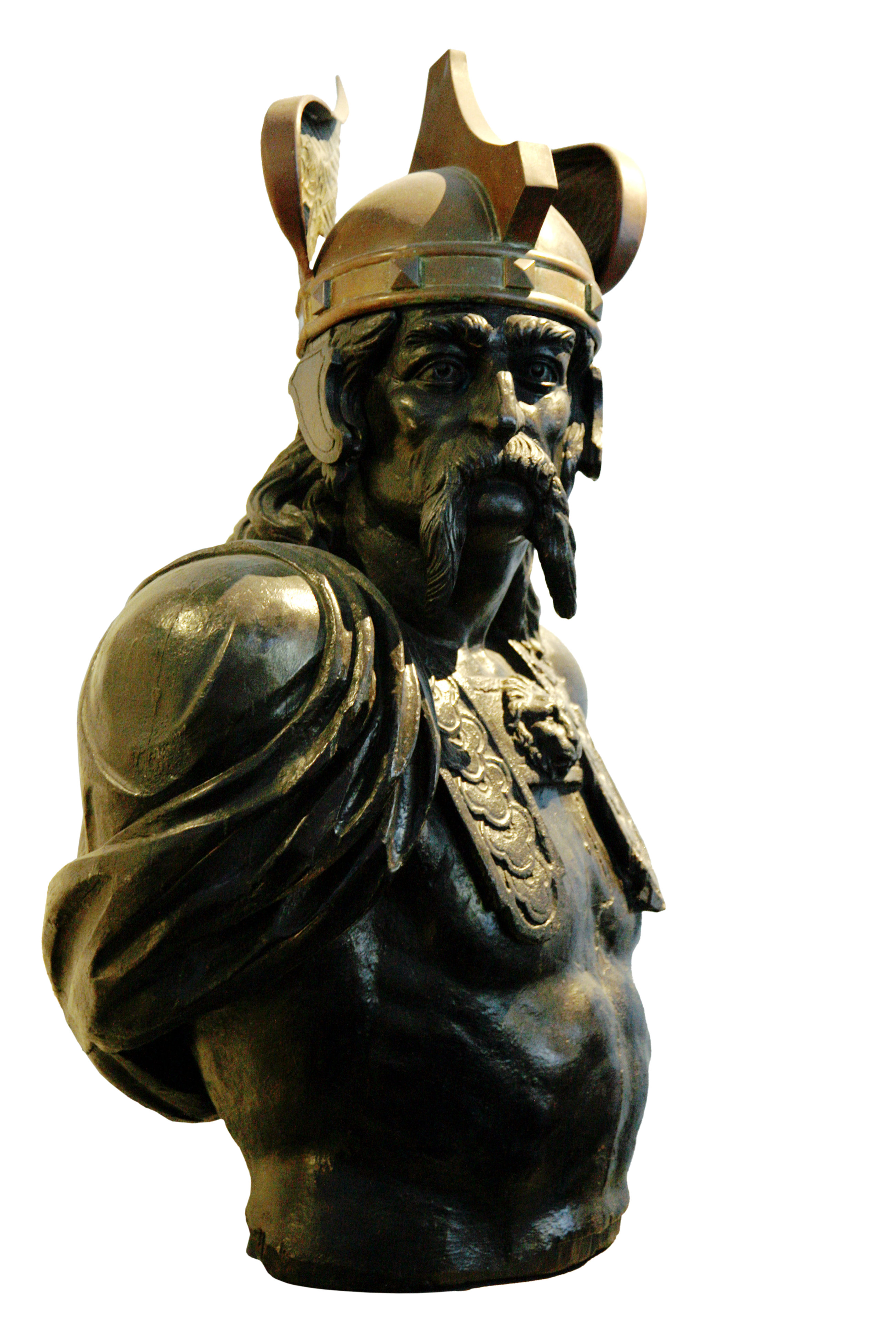 Artist Toulon Sculpture workshopDescription Figurehead of battleship BrennusCollection Musée national de la Marine Native nameMusée national de la MarineLocationParisCoordinates48° 51′ 43″ N, 2° 17′ 15″ E Established1827Web page control : Q1286709 VIAF: 19144648200974718522 ISNI: 0000 0001 2259 2914 LCCN: n50055356 Museofile: M5026 WorldCat institution QS:P195,Q1286709Accession number 41 OA 74Source/Photographer Med Figurehead of battleship Brennus